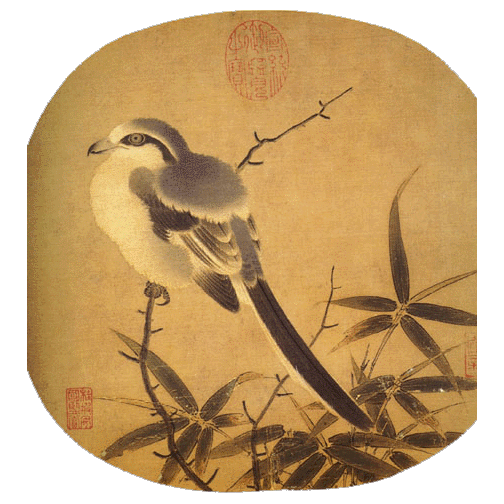 "Bird on a Branch," Chinese painting, album leaf on silk, 25.4 by 26.9 cm.